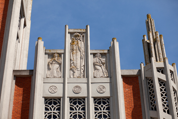 l'église abbatiale Saint-Vaast; Moreuil, Picardie, Somme, France; ; ref: PM_093360_F_Moreuil; ; architectes Charles Duval et Emmanuel Gonse; © Paul M.R. Maeyaert; ; Cultural heritage; Cultural heritage/Modernism; Europeana